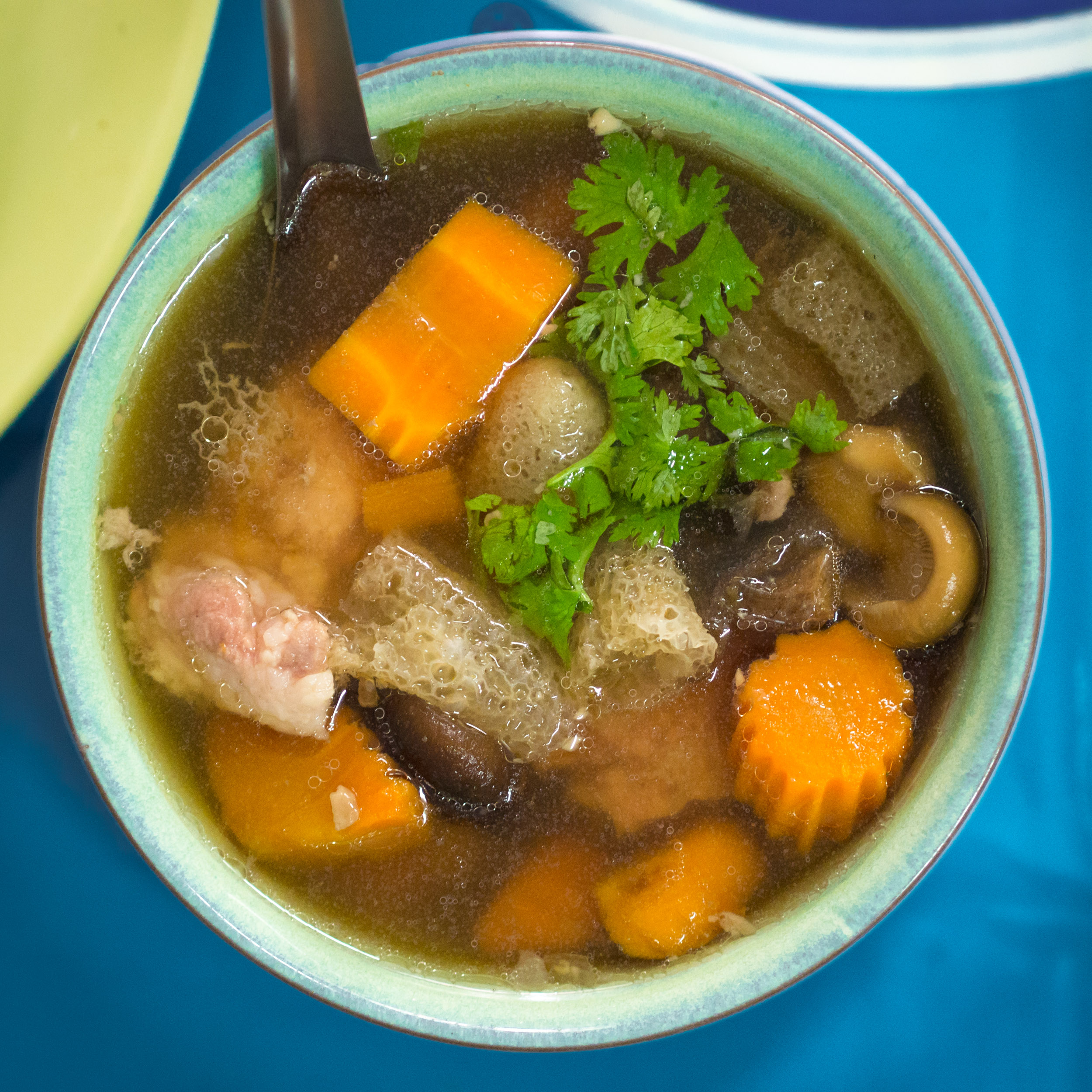 Tom yuea phai (Thai script: ต้มเยื่อไผ่) is a soup with, amongst other ingredients, yuea phai ("bamboo fungus").